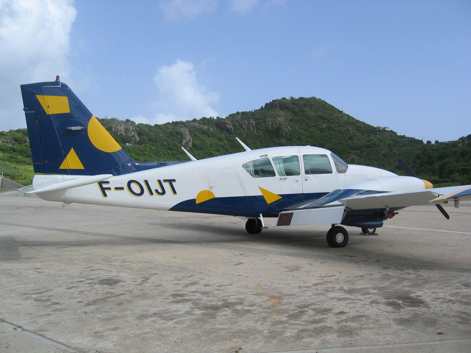 Piper Aztec PA23 F-OIJT St Barth Commuter